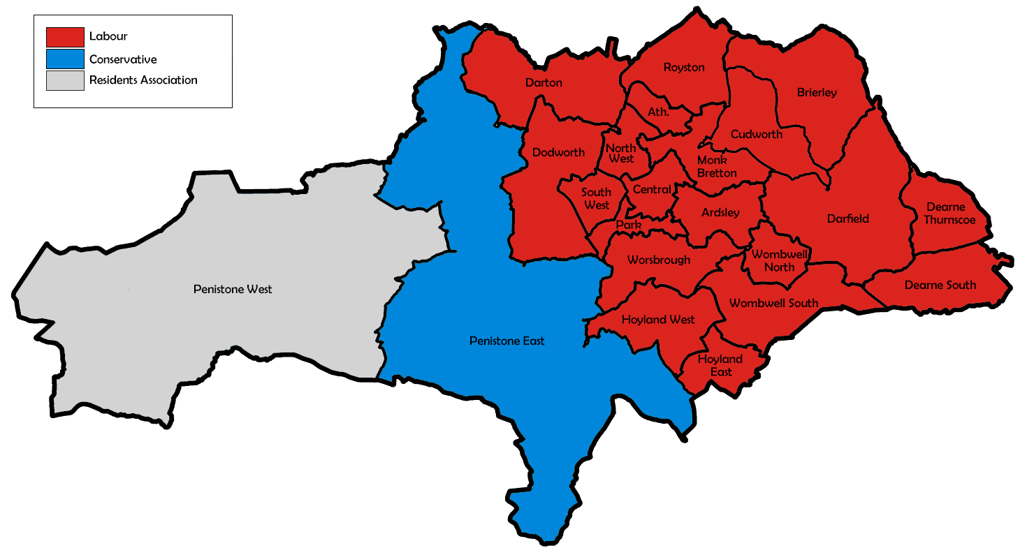 Ward map of Barnsley council with political colouring for the 1987 election.